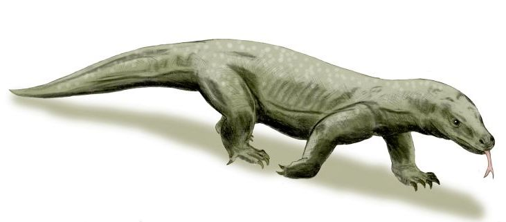 Varanus priscus, a giant monitor lizard that lived during the Pleistocene in southern Australia, pencil drawing, digital coloring